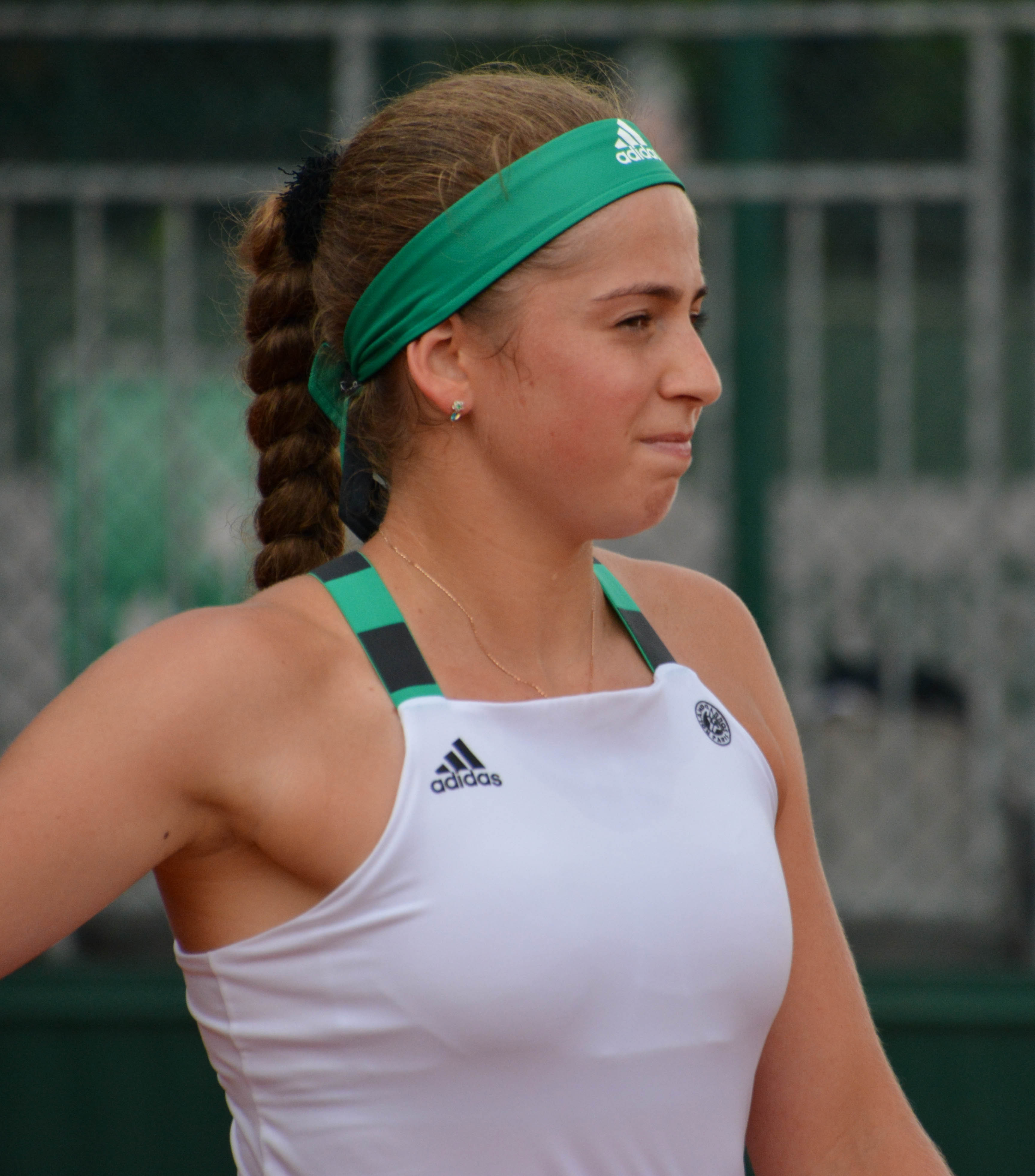 Day 6 of Roland Garros 2017.